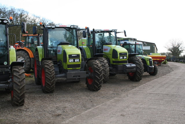 A range of Claas tractors, Yard of Robert Wraight, Agricultural Machinery suppliers, Ashford, Kent, Great Britain. A large selection of new and used equipment is on sale at this main dealer's, supplying the whole of East Kent and beyond.